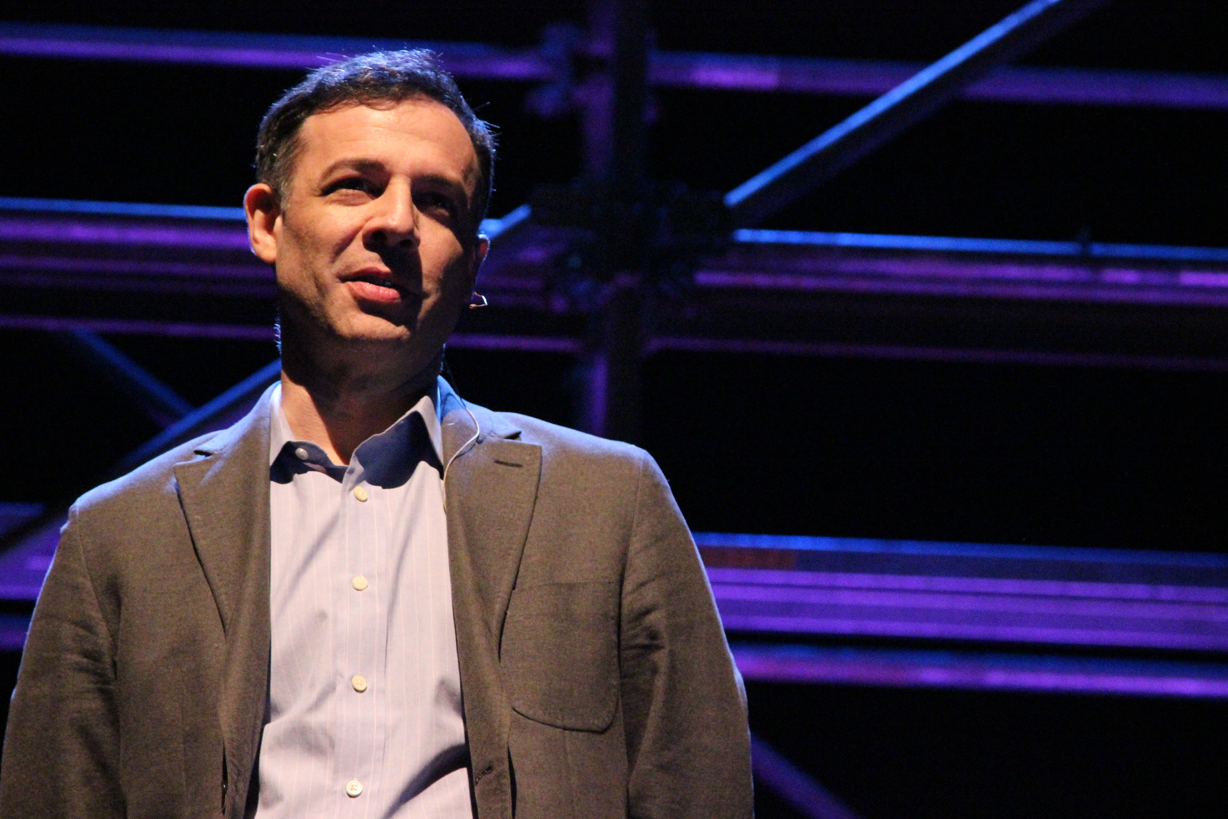 Dalton Conley: Stalkers, Twins, and the Case of the Missing Heritability